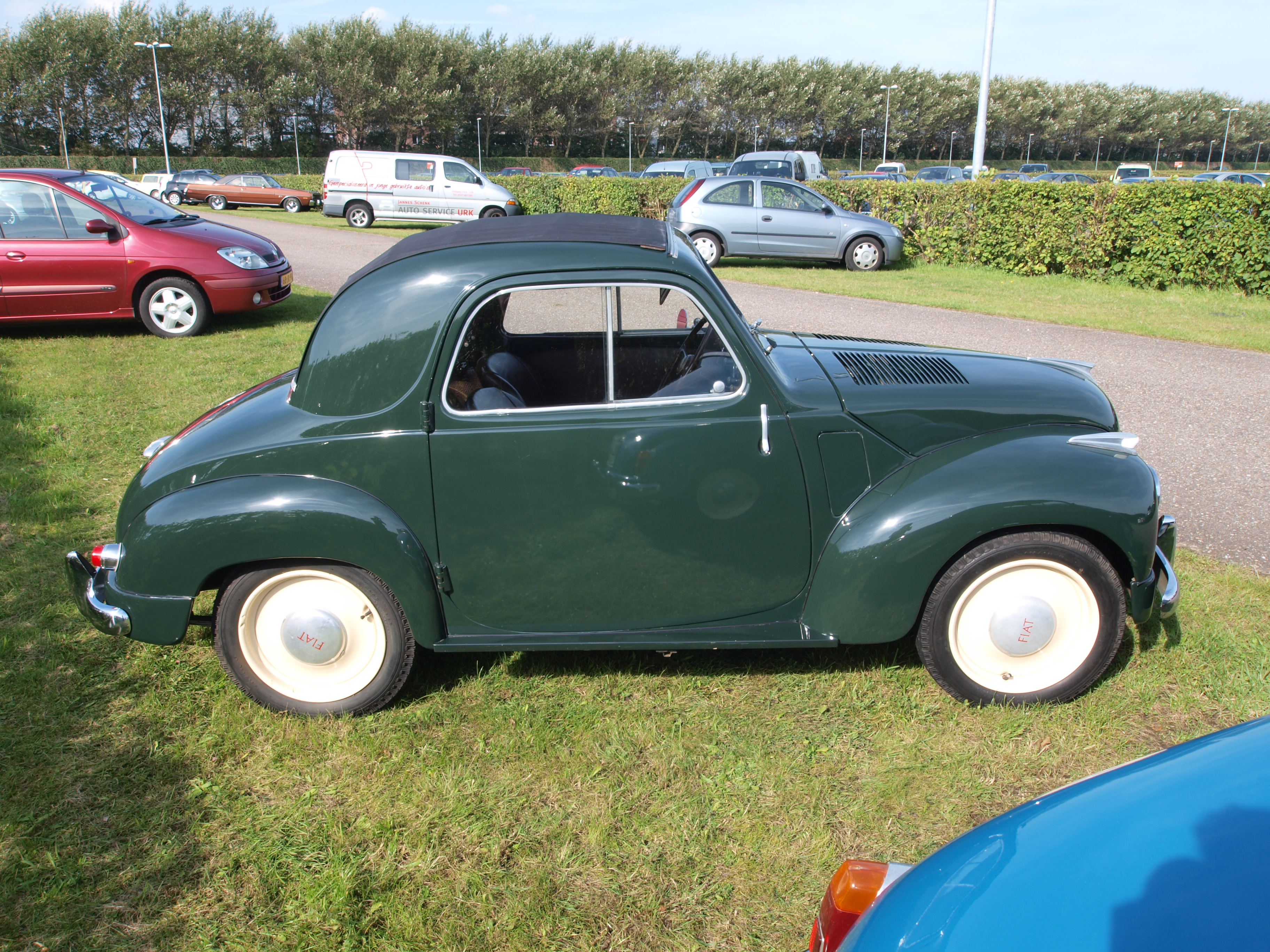 Photographed at Floriander, Haarlemmermeer, The Netherlands.